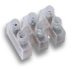 Screw terminals – for the termination of wires.